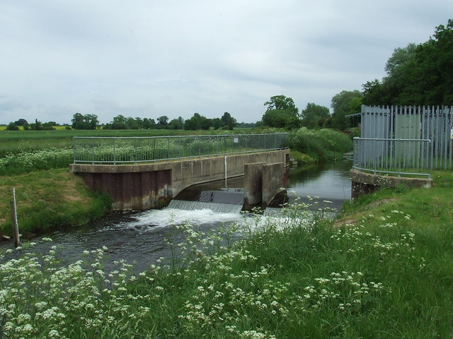 Sluice on the river Nar Looking east with sluice on the river Nar near to Pentney Norfolk.